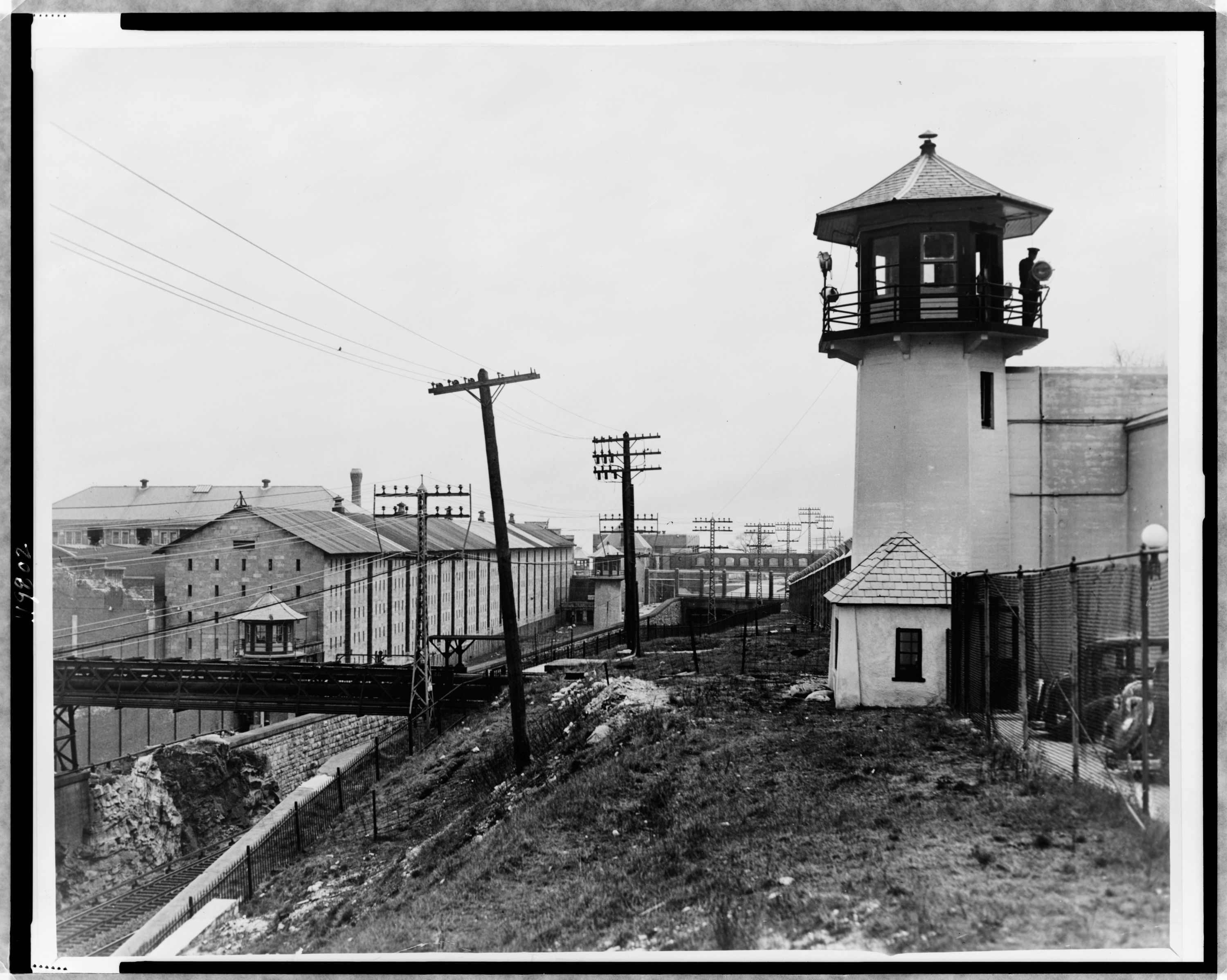 Old cell block, Sing Sing Prison where Richard Whitney is housed / World Telegram photo by C.M. Stieglitz.